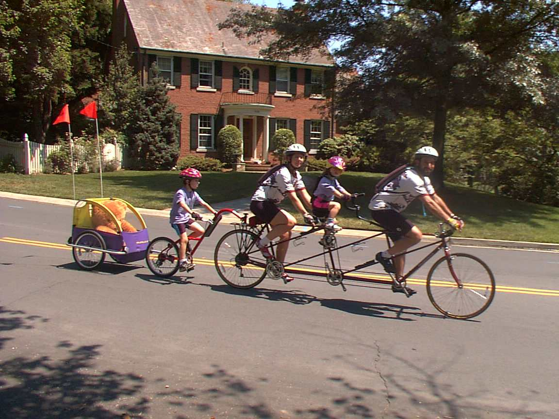 This is a photo of a large sized triple bicycle (sometimes referred to as a Triplet) built by Rodney Moseman of Lititz, Pennsylvania. The rider behind the triplet is on a Burley Piccolo, and the stuffed passenger in the rear is safely ensconced in a 1998 Model Burley D'Lite